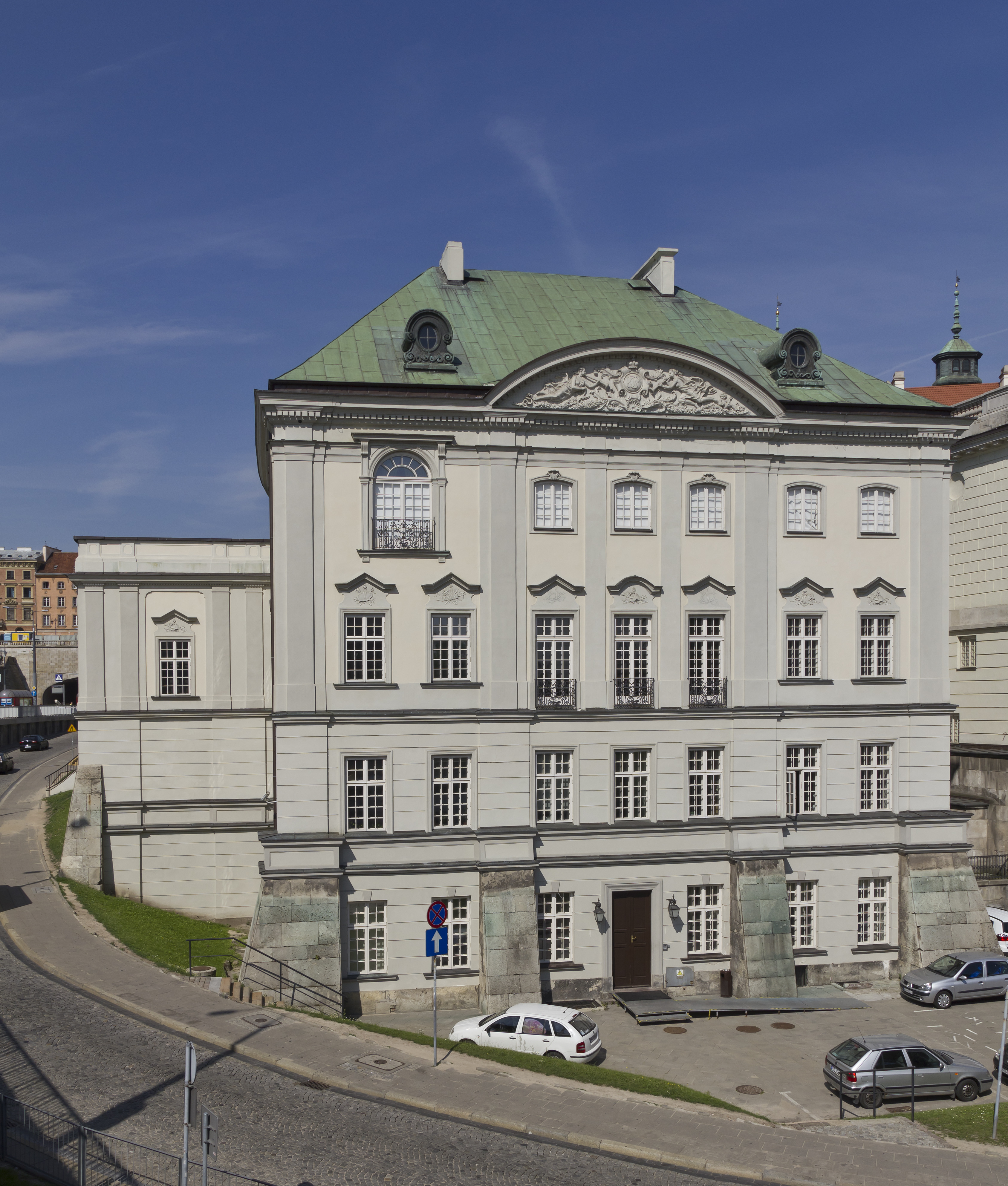 Palace «Under the sheet metal roof» in the Old Town (Stare Miasto) in Warsaw (Poland)